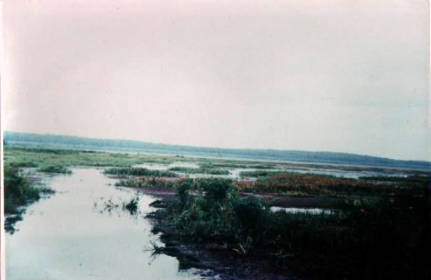 Ob' - Yenisey channel 1